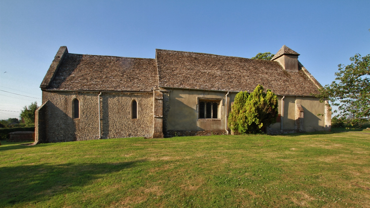 Parish church of St Nicholas, Baulking, Oxfordshire (formerly Berkshire), seen from the north